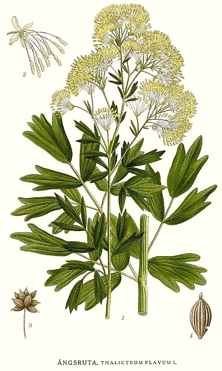 Original Description Ängsruta, Thalictrum flavum L.